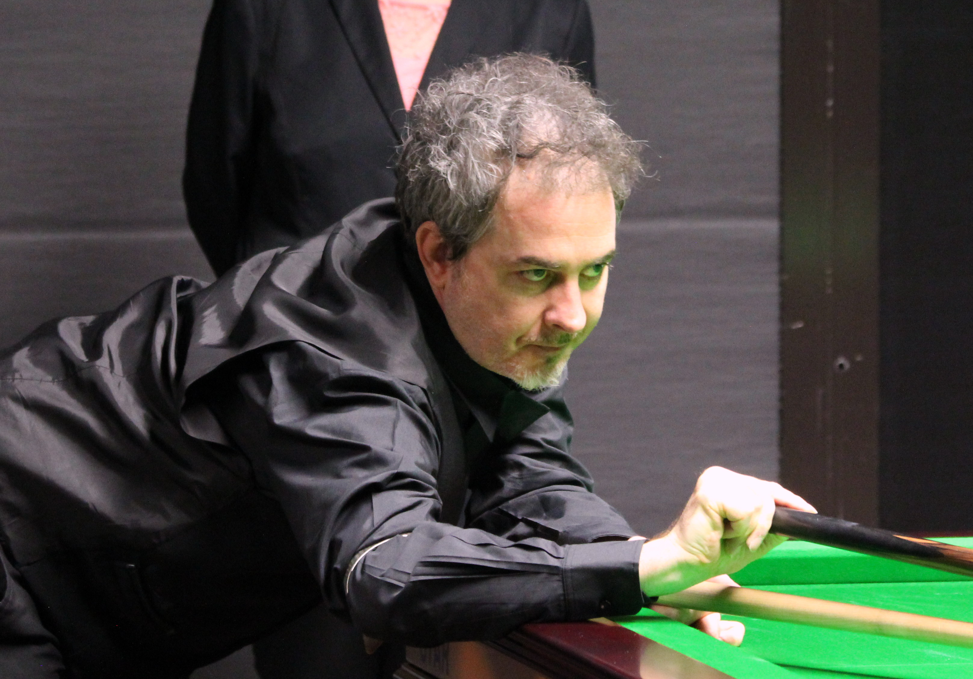 Anthony Hamilton beim Paul Hunter Classic 2016